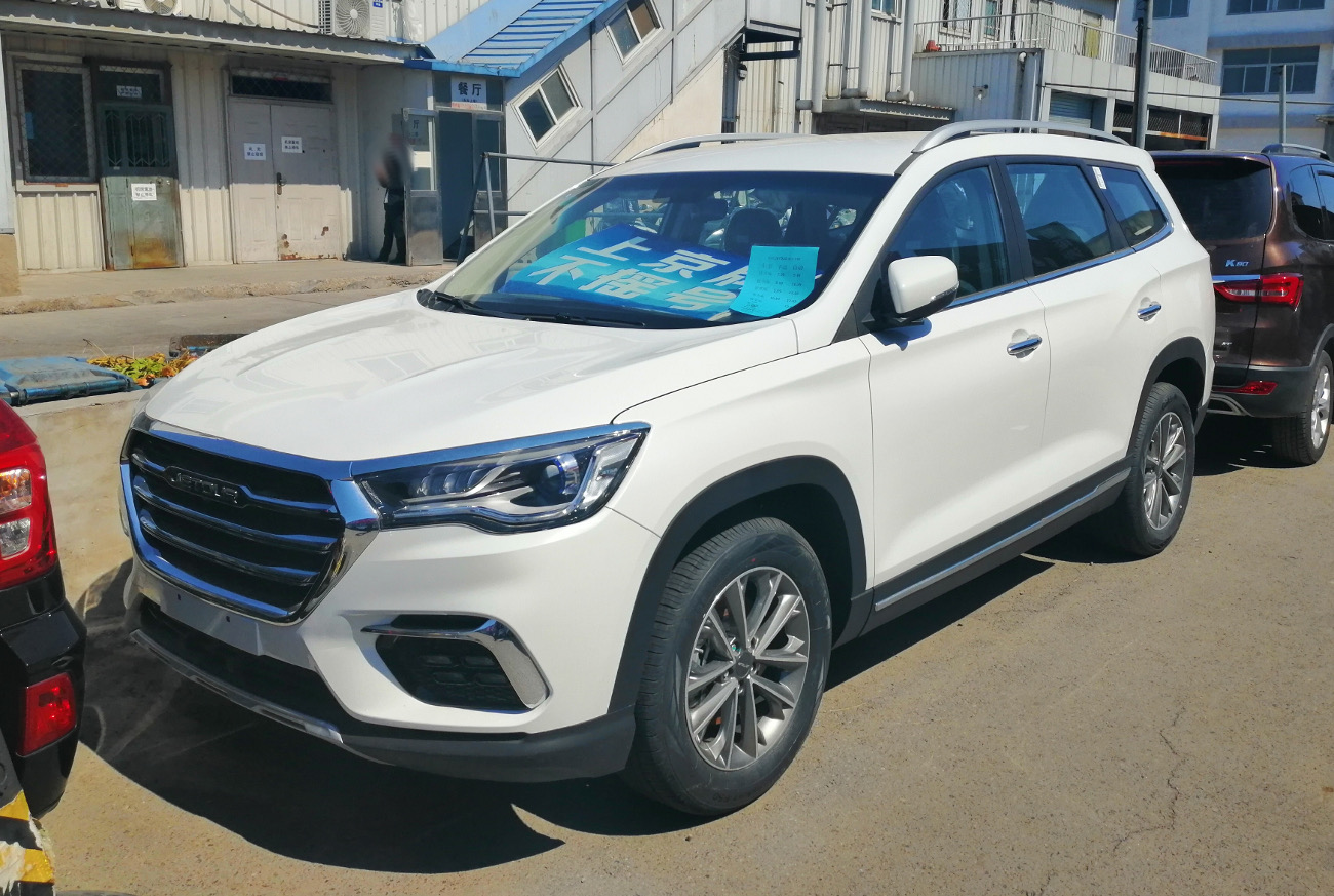 Jetour X90 photographed in Beijing, China.